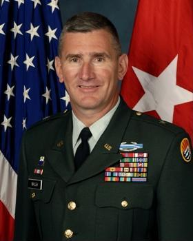 Brigadier General John E. Walsh, Senator from Montana, former Lieutenant Governor